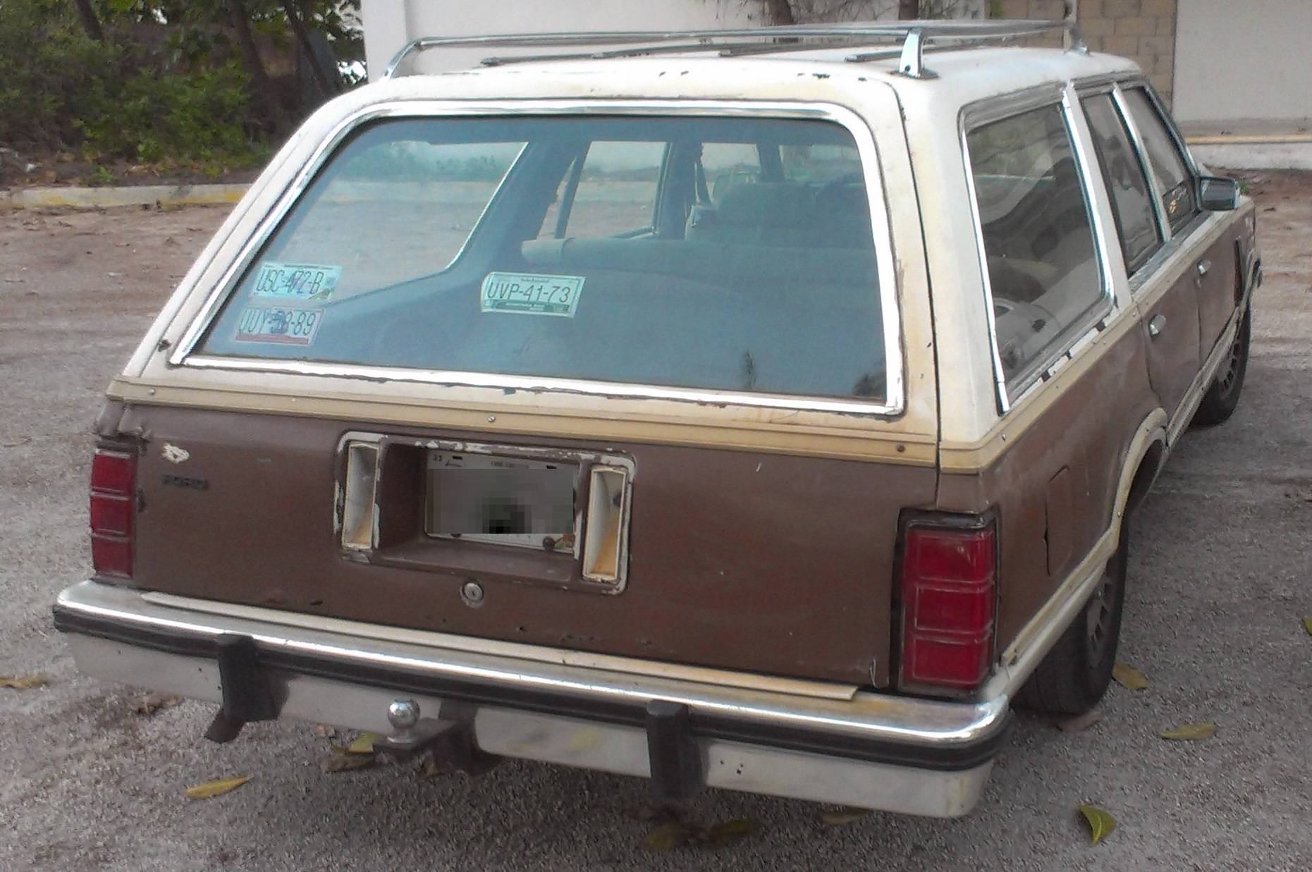 Ford Fairmont (NOT A MERCURY ZEPHYR BECAUSE FORD DID NOT MARKET MERCURY IN MEXICO AT THE TIME) photographed in Cancun, Quintana Roo, Mexico.